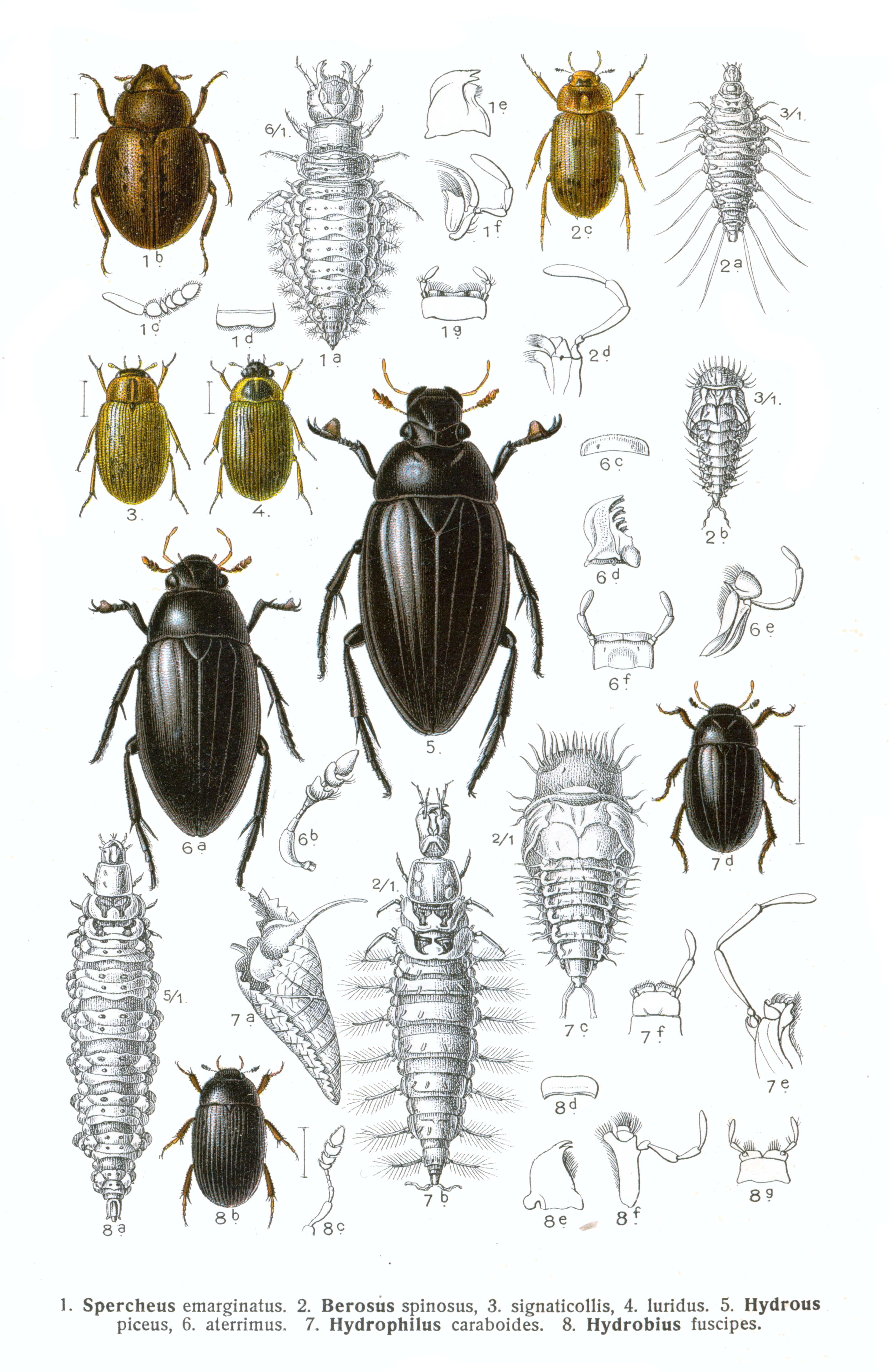 See image for index to numbers. Spercheus emarginatus Schall. = Spercheus emarginatus (Schaller, 1783) (1a: larva, dorsal view, 1b: adult, dorsal view, 1c: antenna of adult, 1d: labrum of adult, 1e: mandible of adult, 1f: maxilla of adult, 1g: labium of adult) Berosus spinosus Stev. = Berosus spinosus (Steven, 1808) (2a: larva, dorsal view, 2b: pupa, dorsal view, 2c: adult, dorsal view, 2d: maxilla of adult) Berosus signaticollis Charp. = Berosus signaticollis Charpentier, 1825, adult, dorsal view Berosus luridus L. = Berosus luridus (Linnaeus, 1761), adult, dorsal view Hydrous piceus L. = Hydrophilus piceus (Linnaeus, 1758), adult, dorsal view Hydrous aterrimus Eschsch. = Hydrophilus aterrimus Eschscholtz, 1822 (6a: adult, dorsal view, 6b: antenna, 6c: labrum, 6d: mandible, 6e: maxilla, 6f: labium) Hydrophilus caraboides L. = Hydrochara caraboides (Linnaeus, 1758) (7a: ootheca, 7b: larva, dorsal view, 7c: pupa, dorsal view, 7d: adult, dorsal view, 7e: maxilla, 7f: labium) Hydrobius fuscipes L. = Hydrobius fuscipes (Linnaeus, 1758) (8a: larva, dorsal view, 8b: adult, dorsal view, 8c: antenna of adult, 8d: labrum of adult, 8e: mandible of adult, 8f: maxilla of adult, 8g: labium of adult)